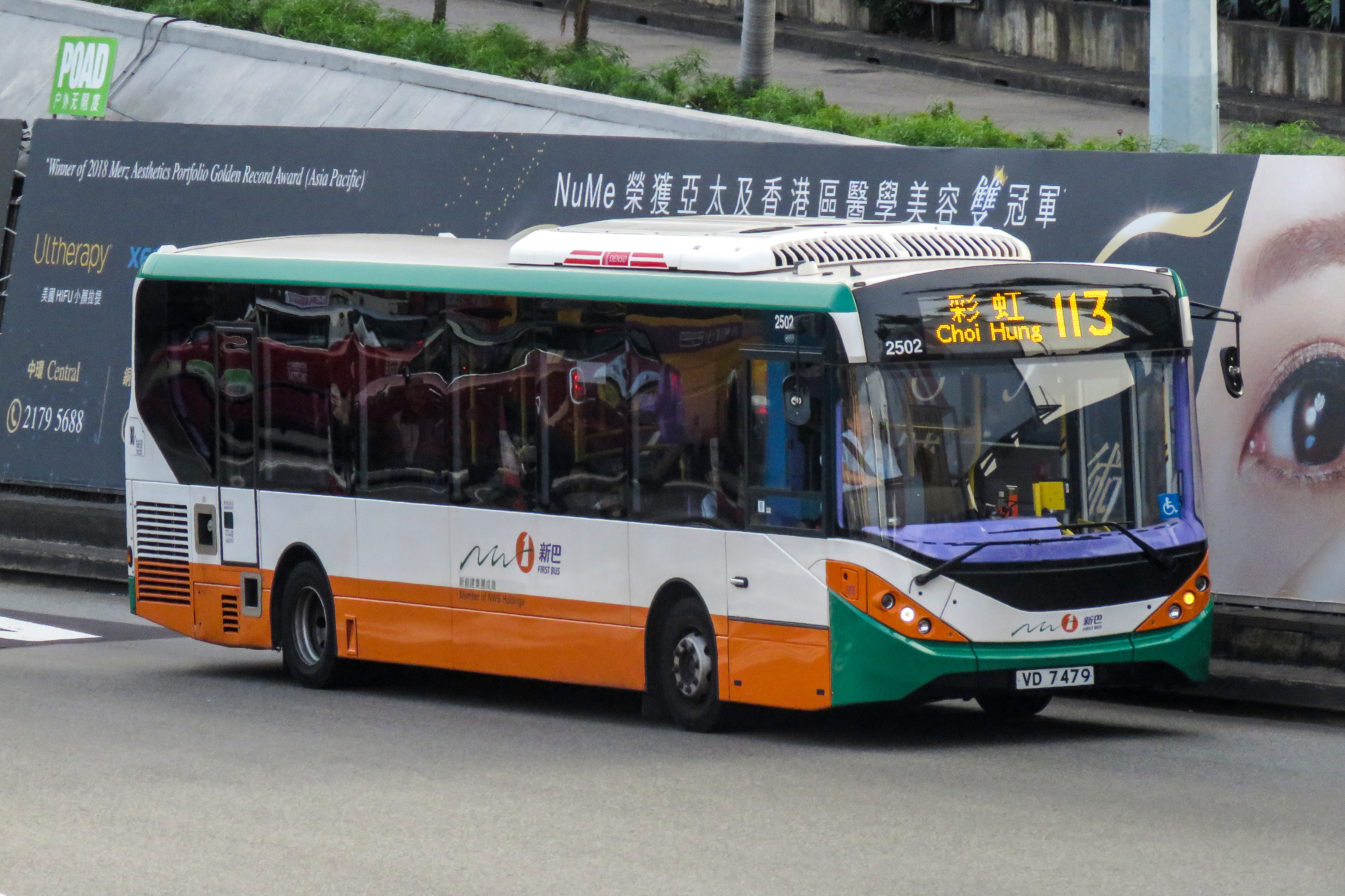 First shot at the southern flyover - wait a minute, why are you here on 113?